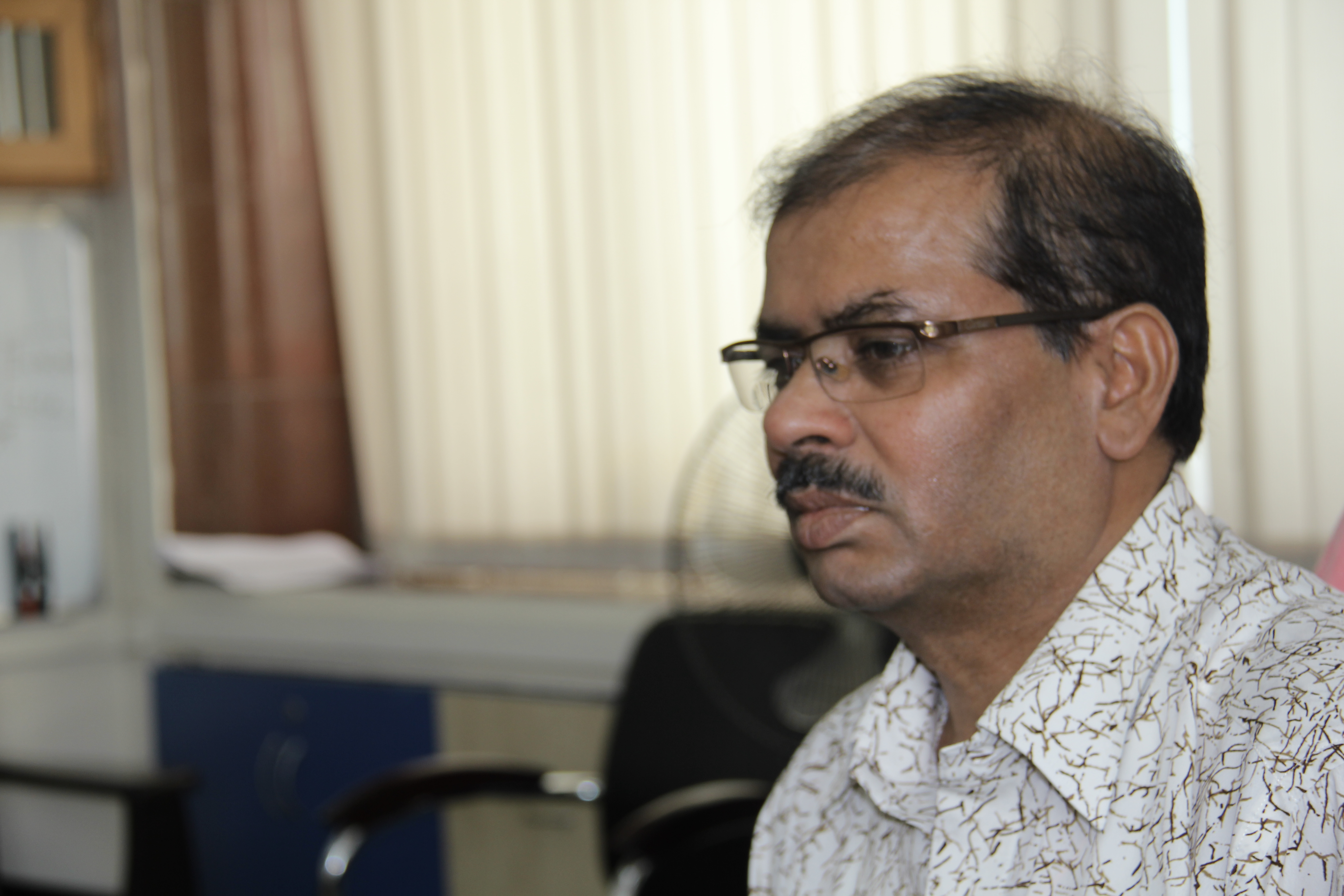 Shiv Bhushan Lal